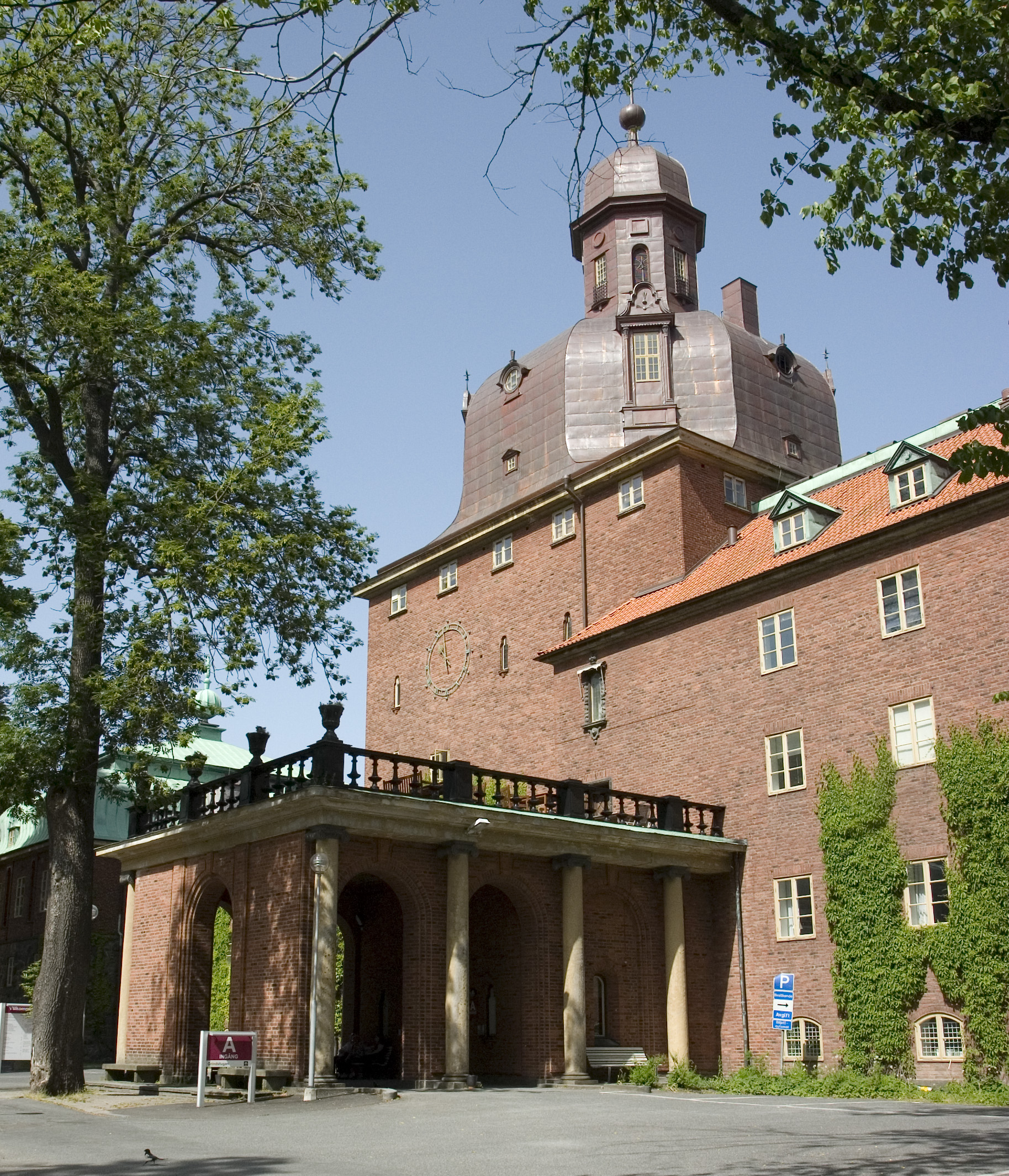 The Hospital Carlanderska sjukhemmet in Gothenburg, Sweden